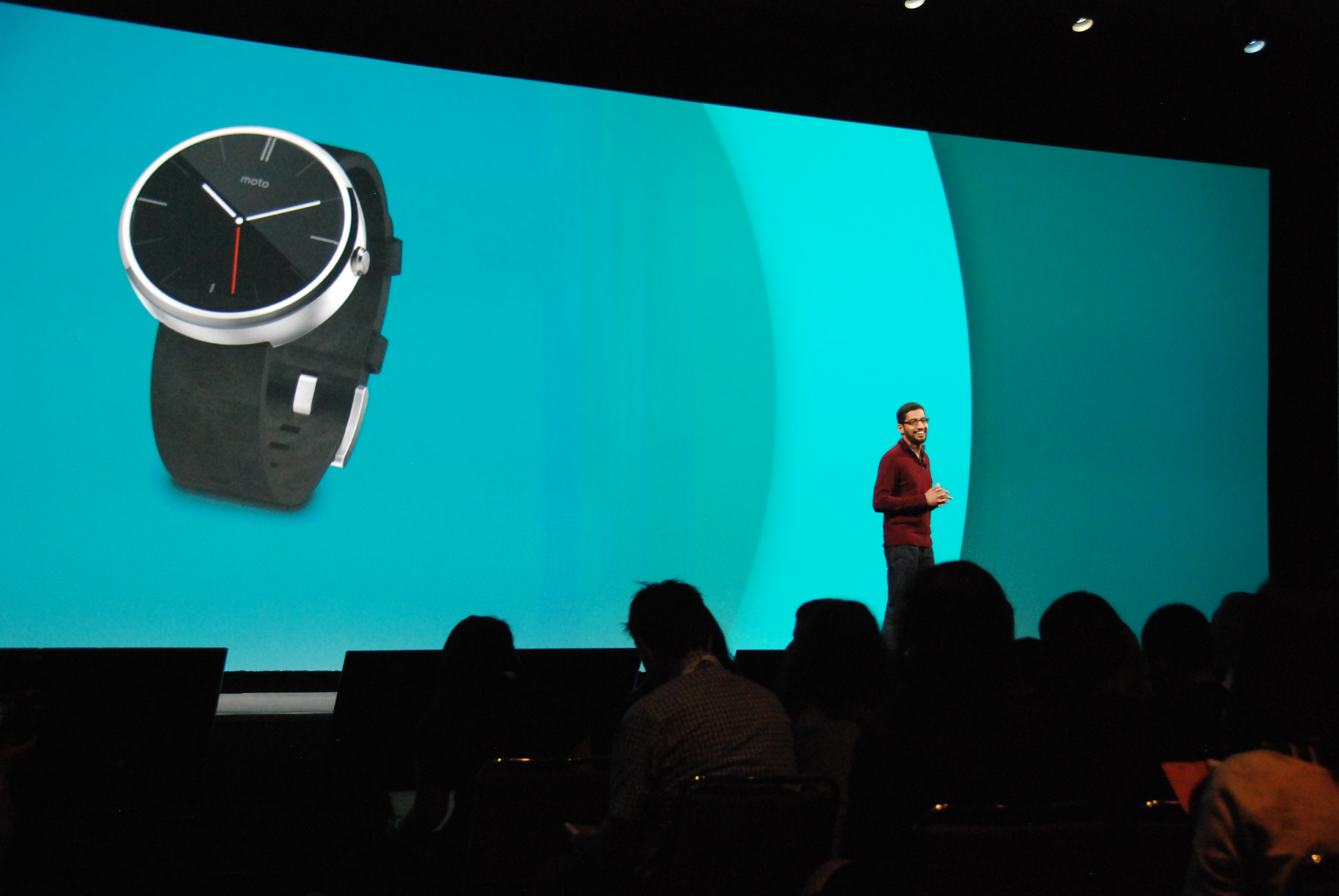 Motorola Moto 360 announced at Google's 2014 Google I/O